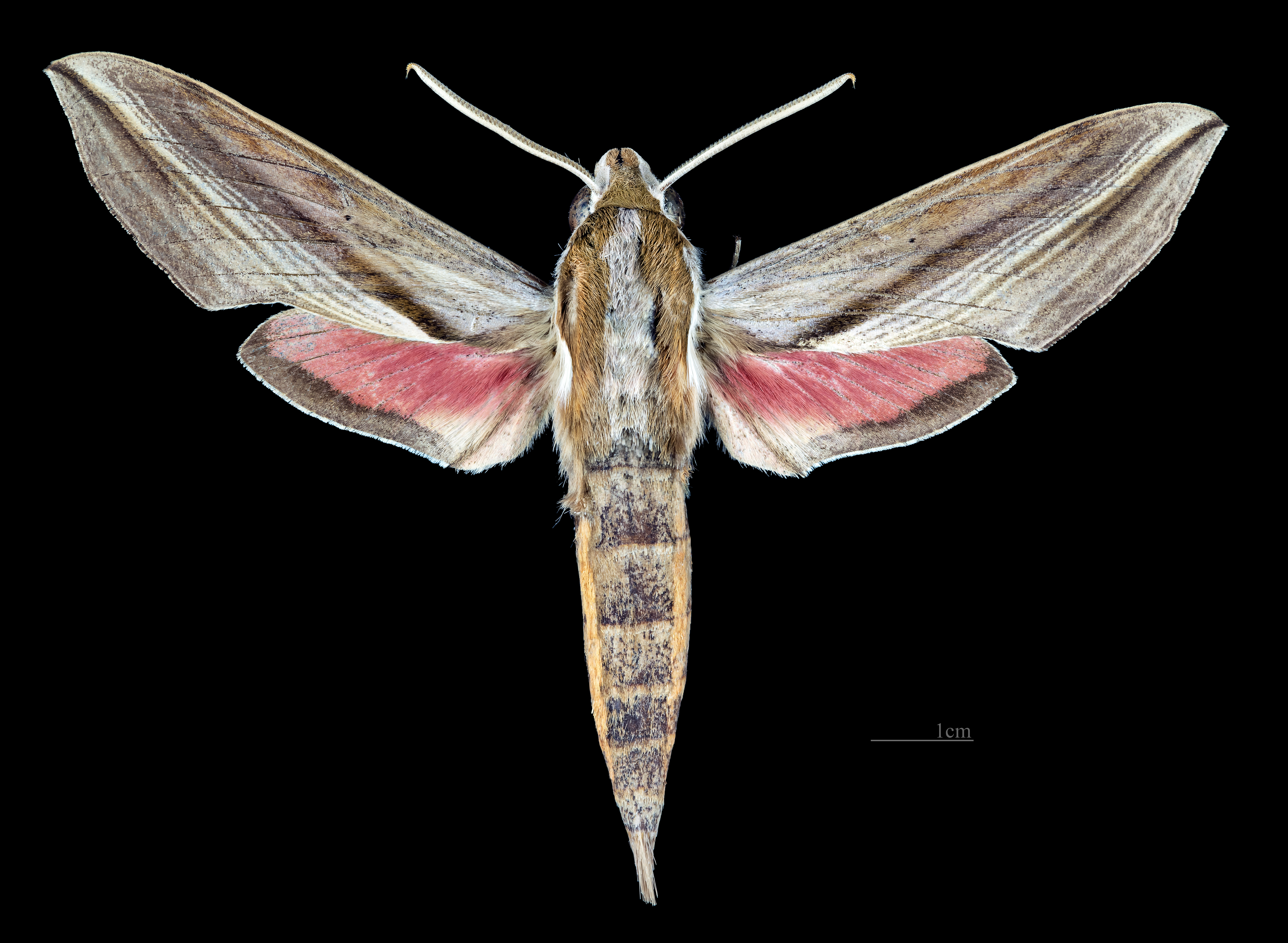 Hippotion boerhaviae - Dorsal side Collection of the Mathematician Laurent Schwartz